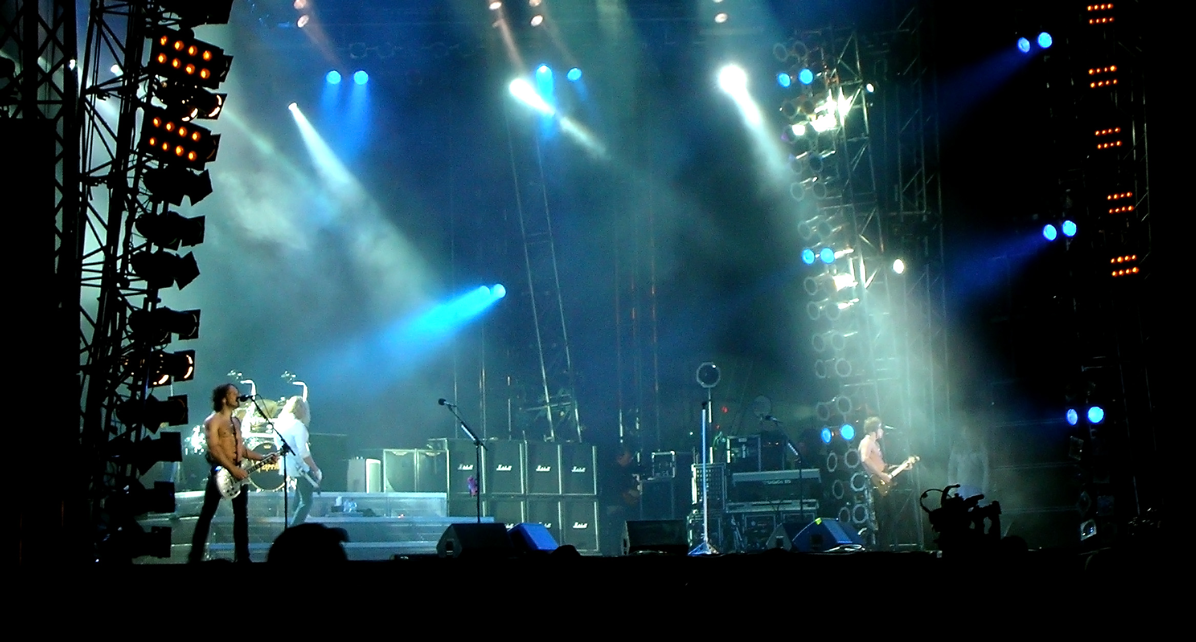 Def Leppard performing at Sweden Rock Festival, 7 June 2008.